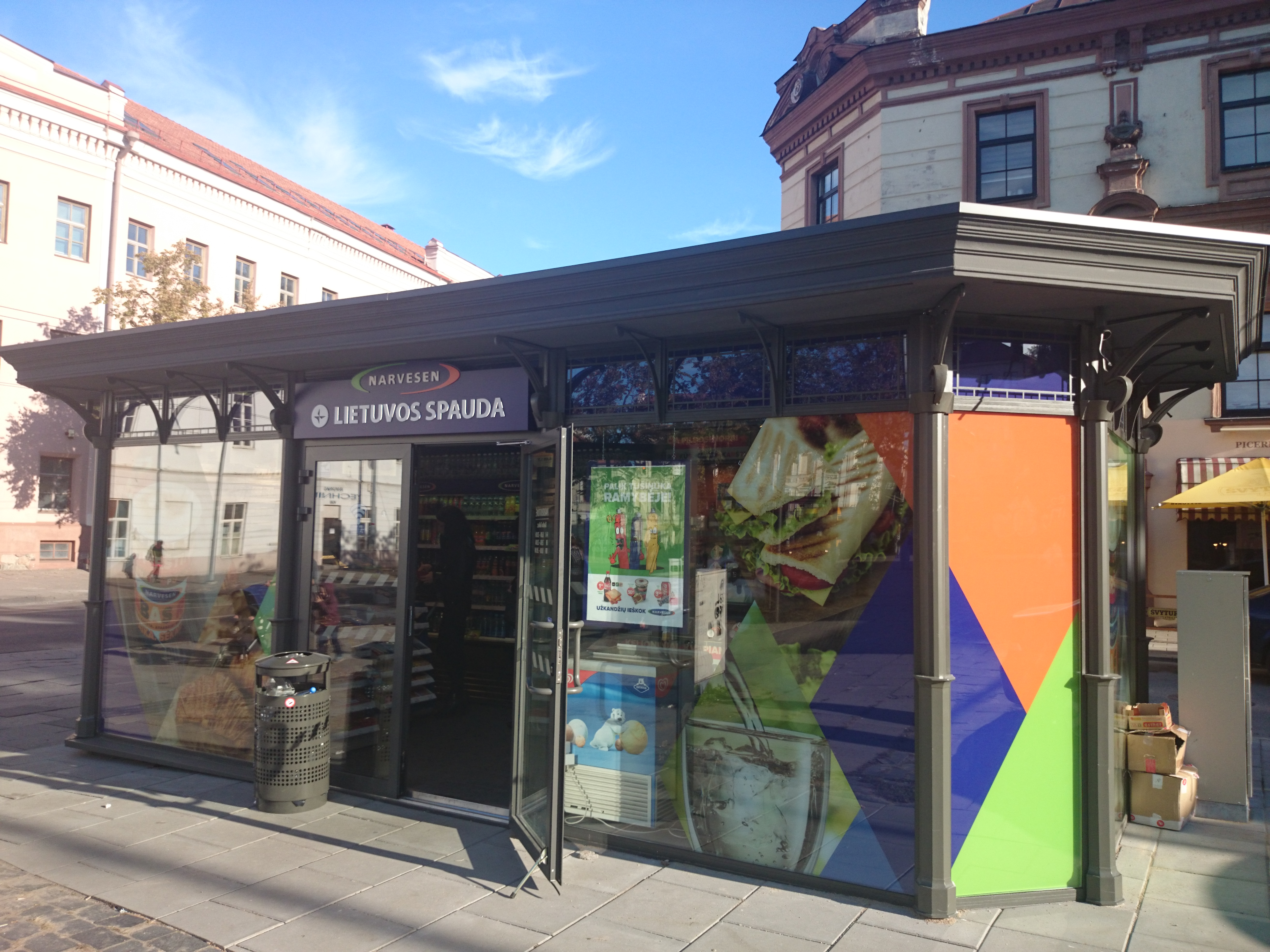 Lietuvos spauda